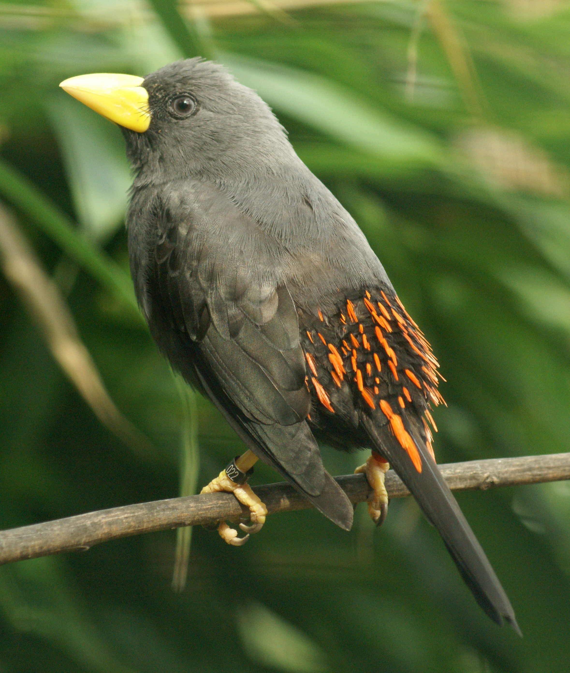 Grosbeak starling (Scissirostrum dubium), Tiergarten Bernburg, Germany